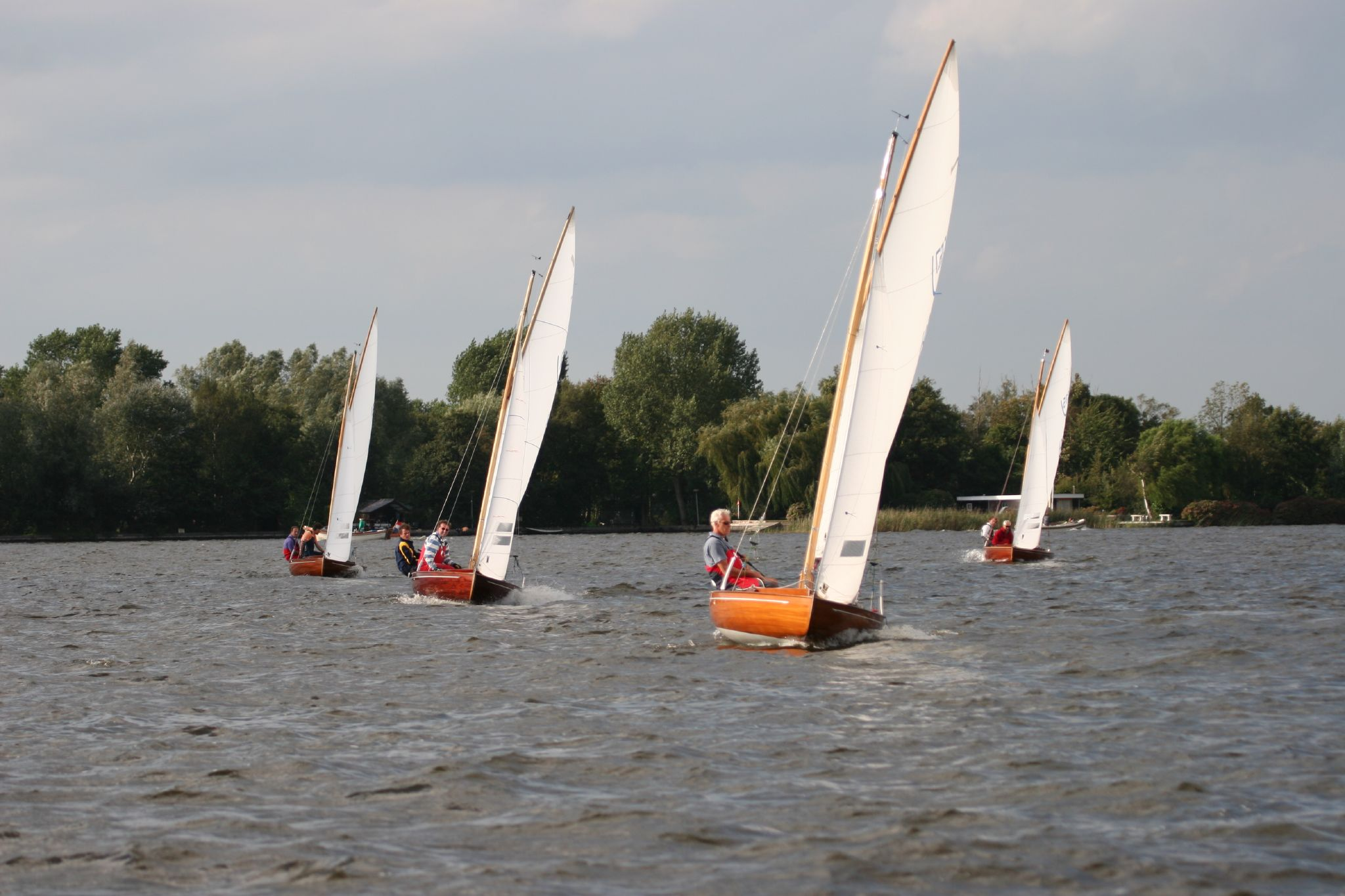 PIP (Primus Inter Pares) sailing race on Loosdrechtse Plassen in 2006